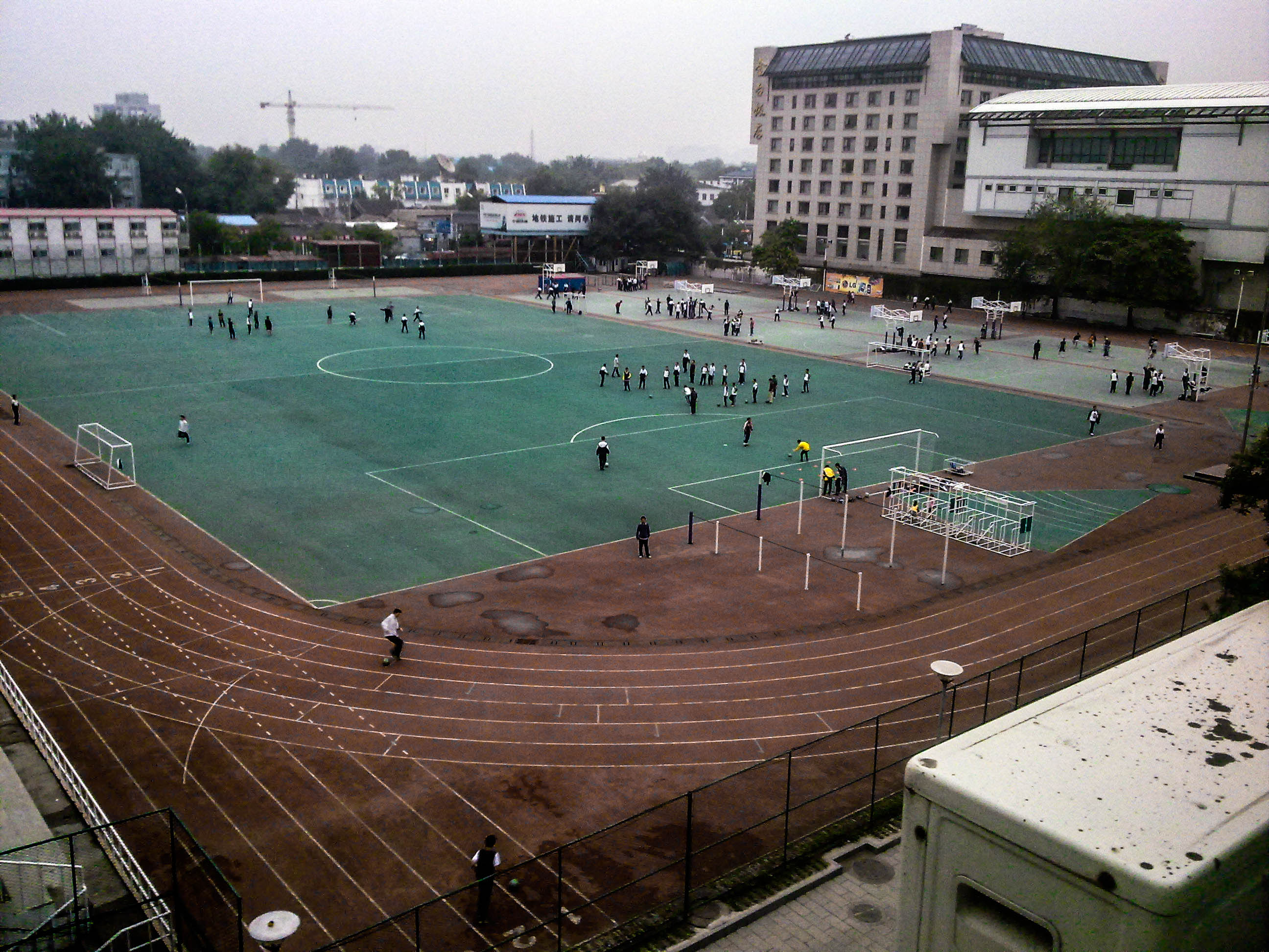 Beijing No.4 High School's playground